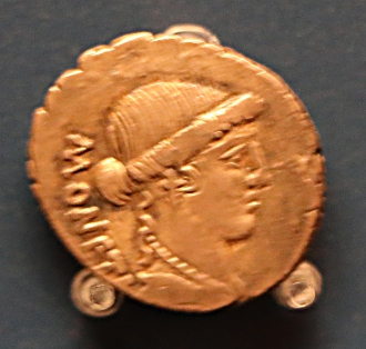 Photo of a denarius from 46BC featuring a bust of Juno Moneta the roman goddess of the mint